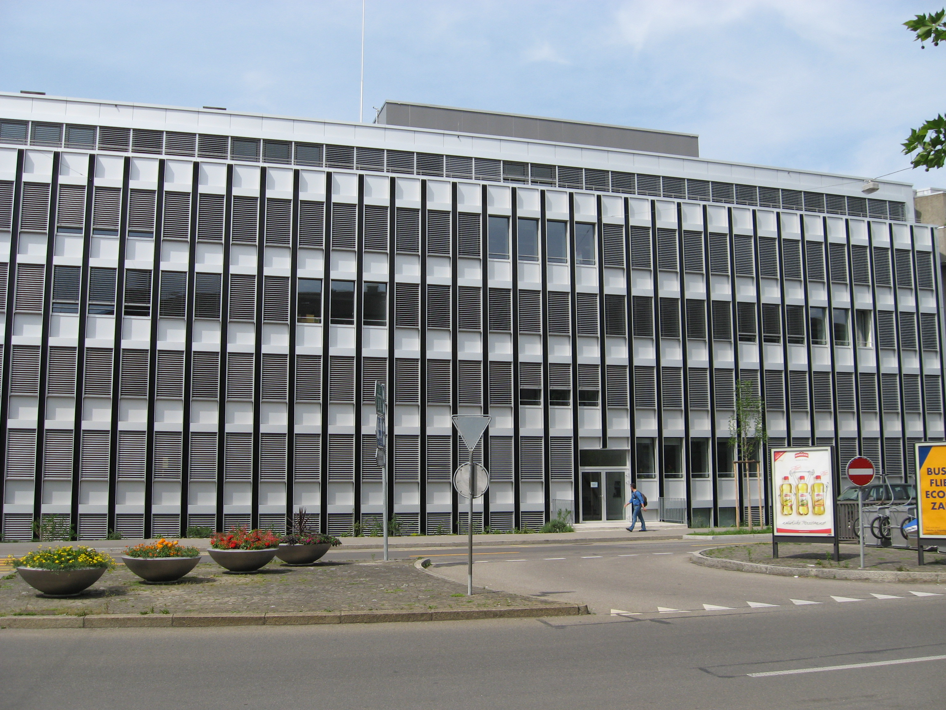 Swiss Federal Tax Administration, Eigerstrasse 65, 3003 Berne (map)